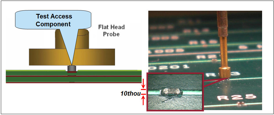 Test Access